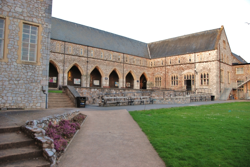 Picture of the North Cloisters. These buildings were formerly home to St Luke's Teacher Training College.